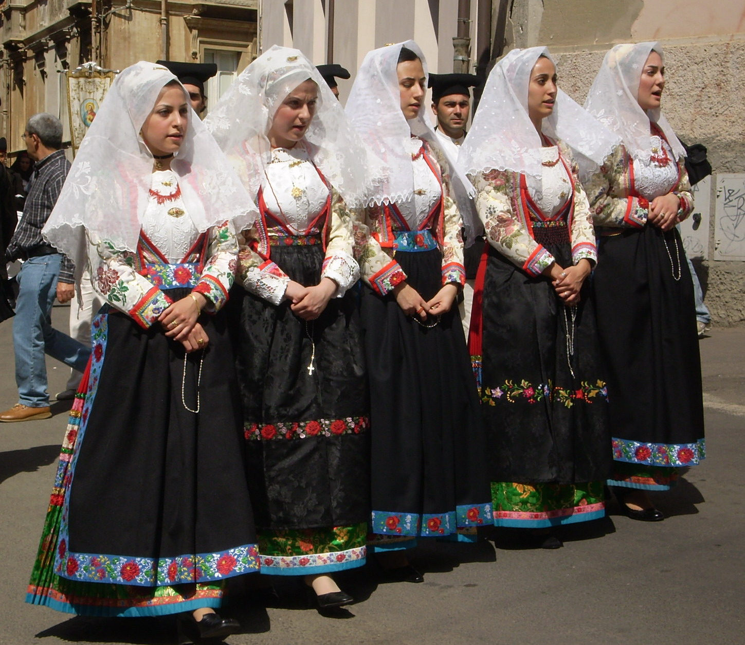 traditional costume of busachi